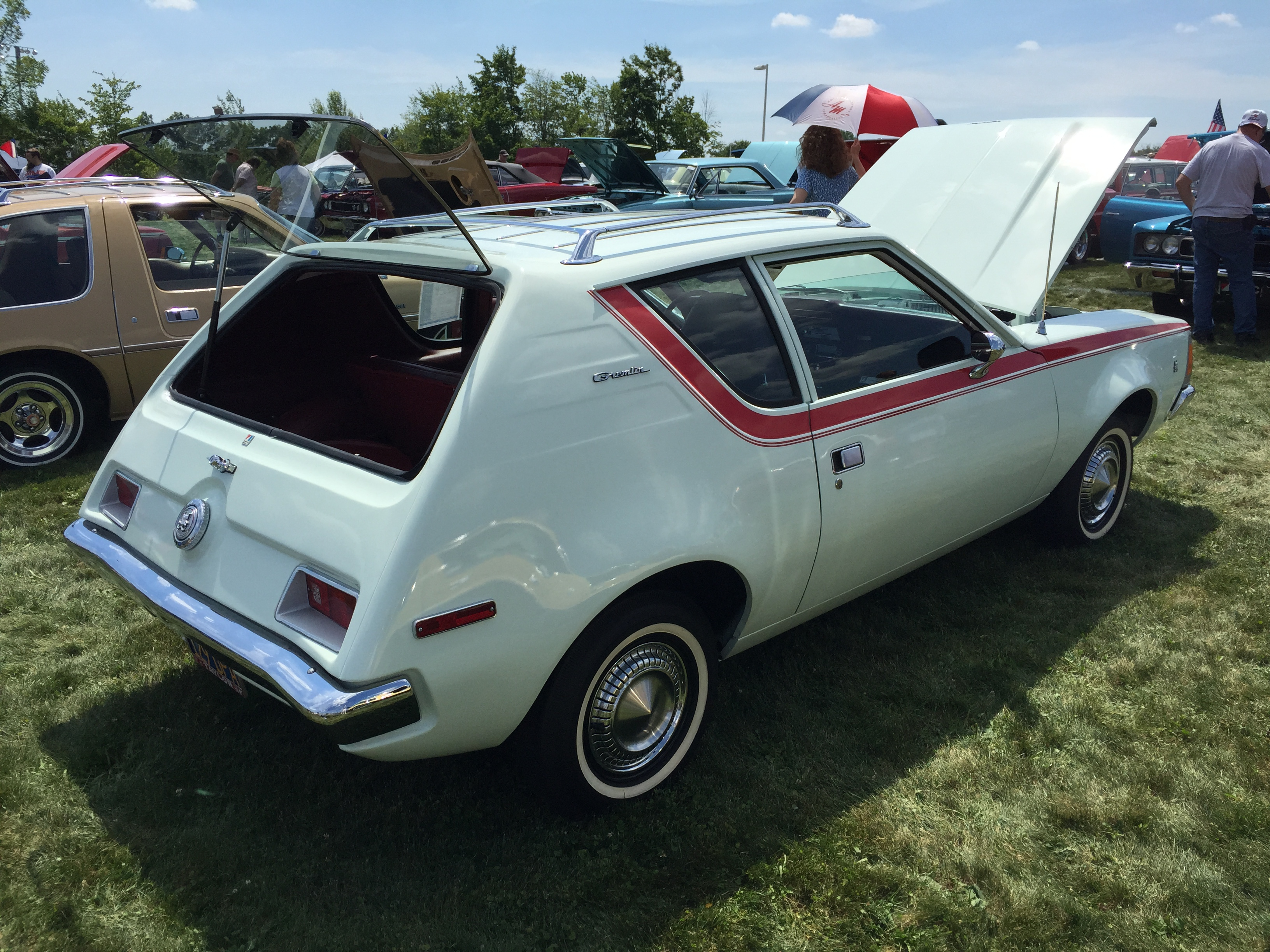 1971 AMC Gremlin, a low priced (suggested base price of $1,999.00) and an economical subcompact built by American Motors Corporation (AMC). This car is in original factory condition and is finished in Snow White with red "rally" side stripes. It has the Custom Interior package in red that includes the high back bucket front seats. It has the optional 258 cu. in. (4.2 L) I6 engine with a 3-speed manual floor shift. It was also ordered from the factory with power steering, power brakes, AM radio, luggage rack, tinted glass, full wheel covers, and a heavy-duty battery. Total suggested retail price was $2694.50, including the transportation charges. It was sold by Taylor Motors in Redding, California. The car has been upgraded to whitewall tires. Picture taken during the American Motors Owners Association (AMO) annual convention that was held July 2015 near Cleveland, Ohio.